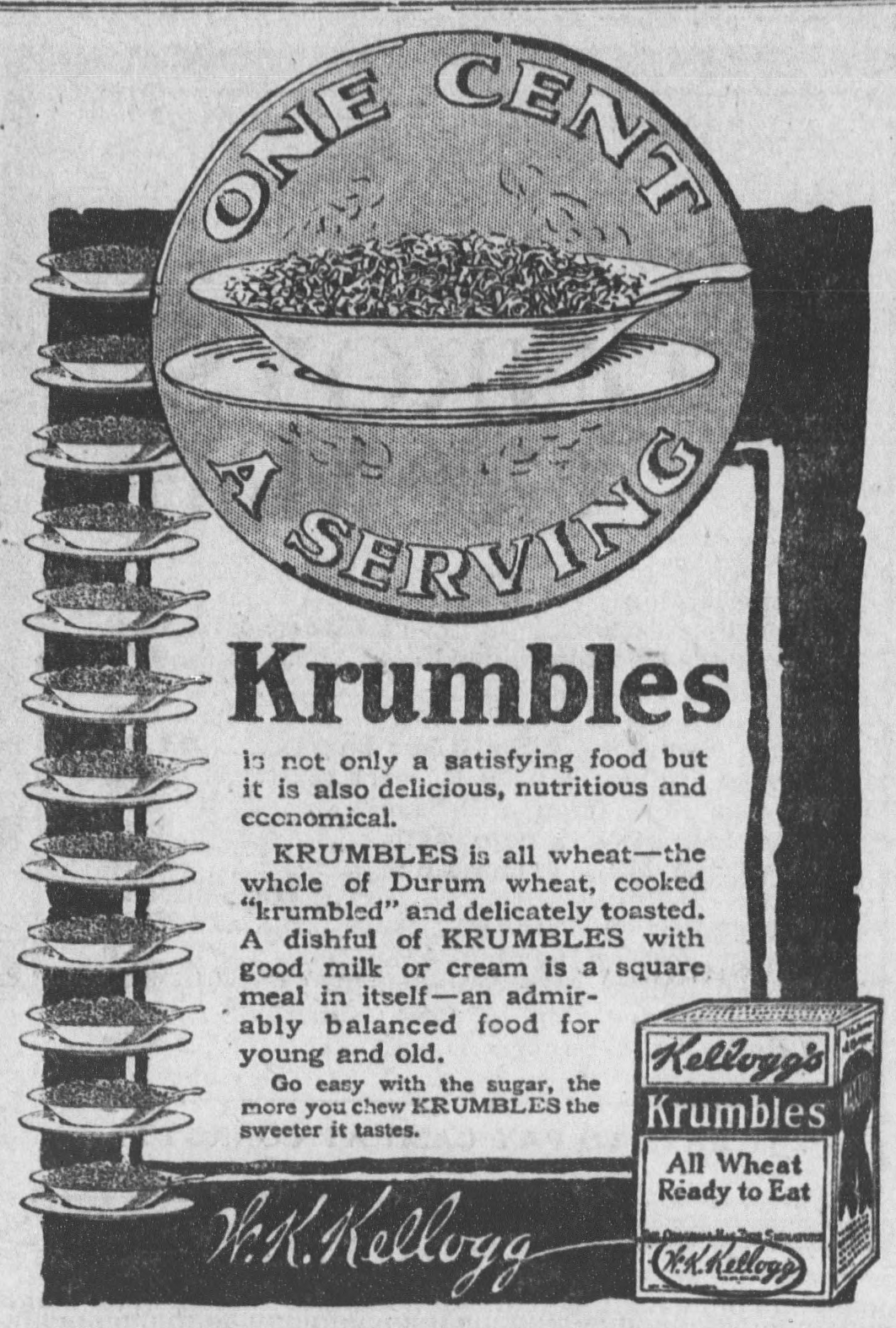 from about the 1910s to 1960, Kellogg's made a breakfast cereal named "Krumbles".